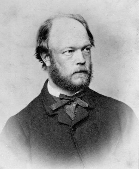 Peter Guthrie Tait (1831 – 1901)